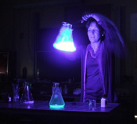 Cropped and horizontally flipped image of a chemoluminescent reaction. photograph taken [1] by Flickr user "everyone's idle" [2] and put under an Attribution-ShareAlike 2.0 license.